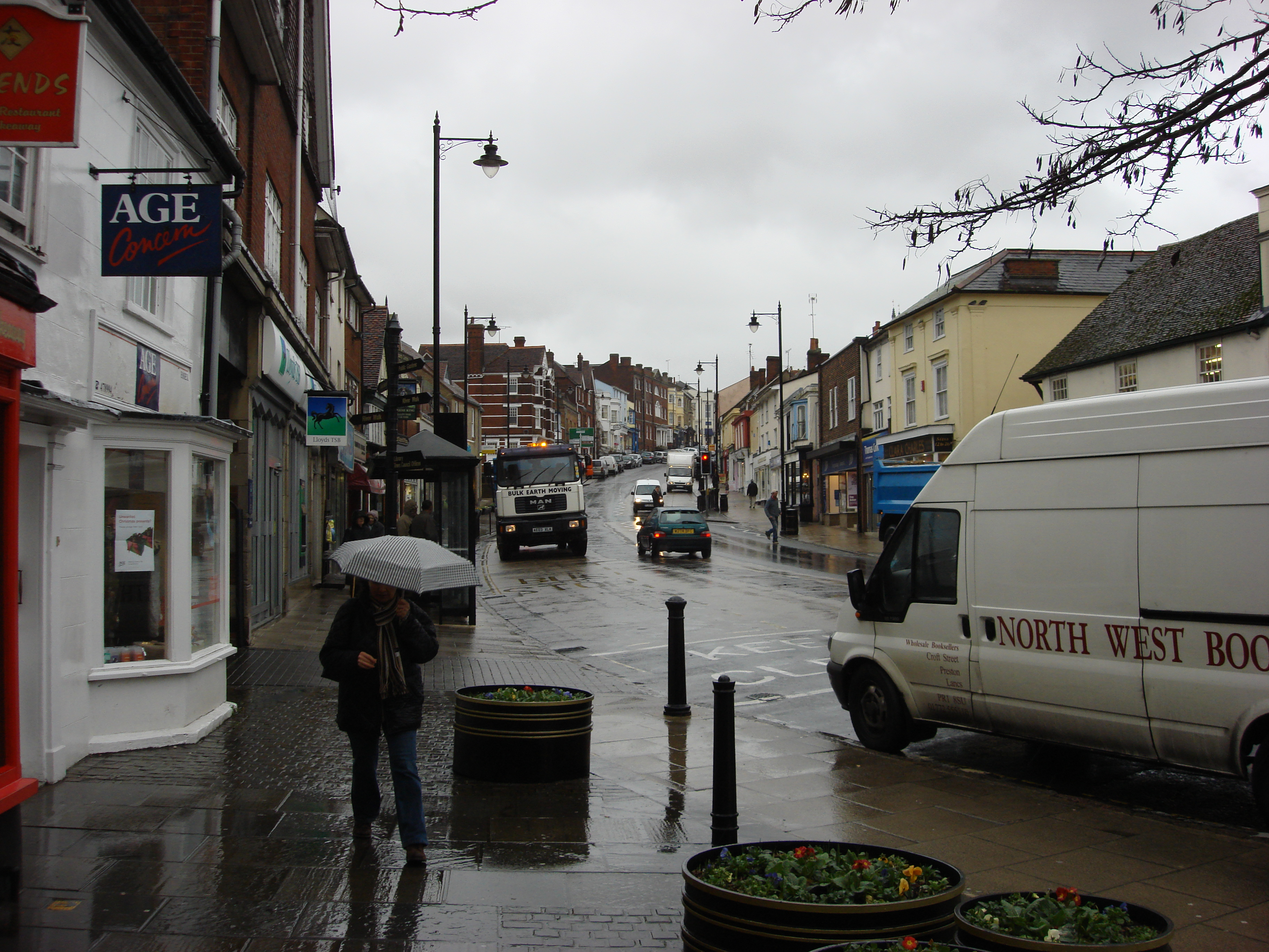 Halstead, High Street